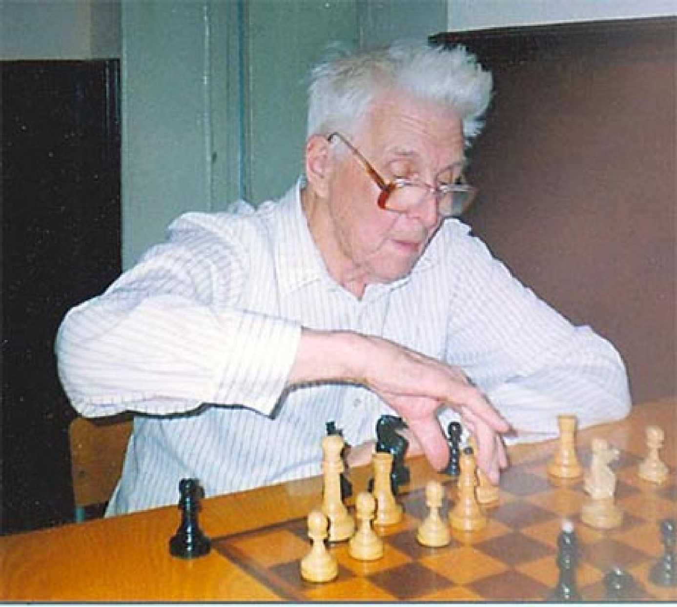 Konstantin Konstantinovich Sukharev – the chess composer in a tournament for senior citizen chess players in the city chess club of Novosibirsk (Russian Federation)